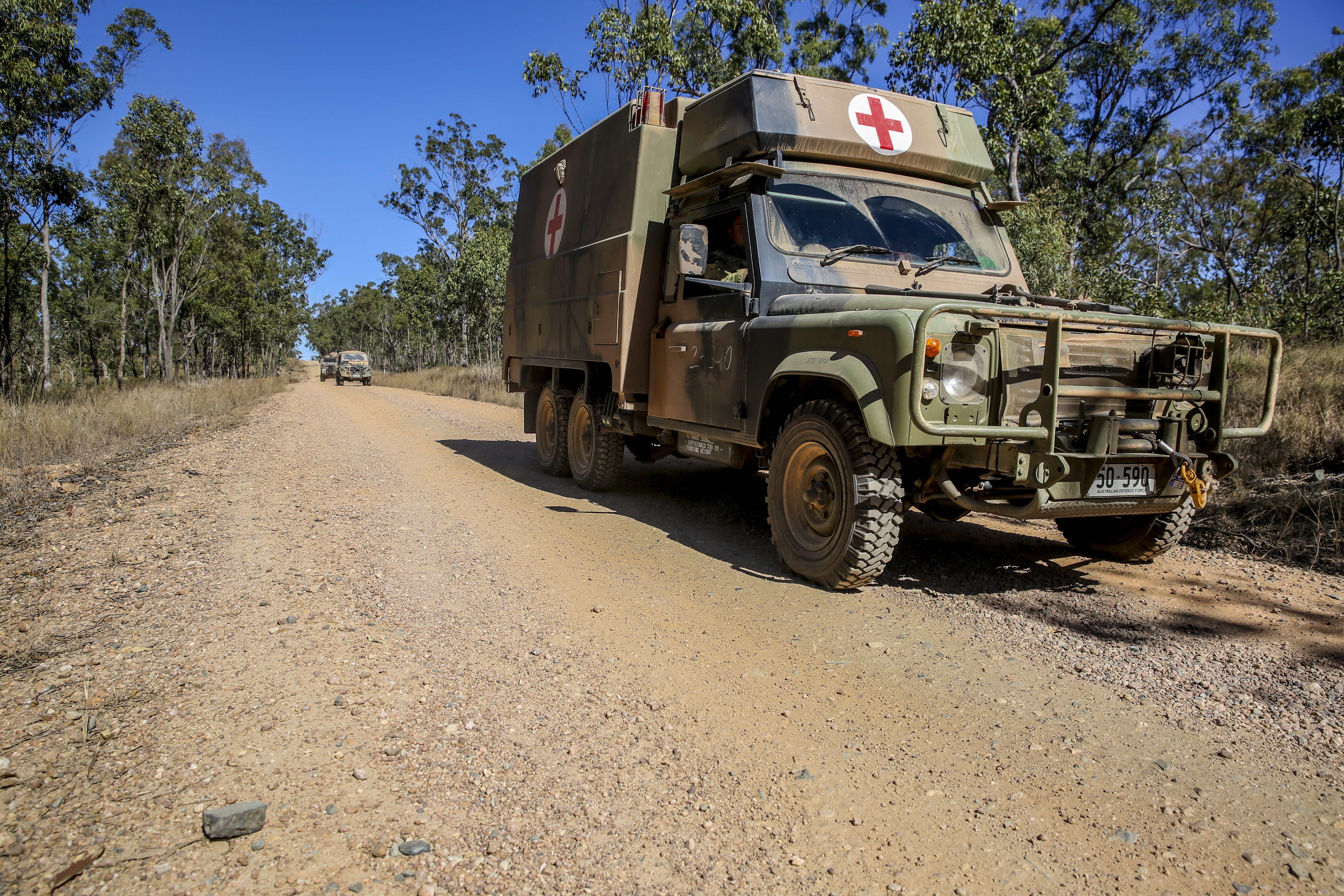 Soldiers with the Australian Army conduct a vehicle patrol in a Land Rover Perentie Ambulance during Exercise Hamel, the Australian Army's annual combat readiness evaluation, during the month of July, 2014. Exercise Hamel provides an excellent opportunity for U.S. Marine Corps Marine Rotational Force - Darwin to train with Australian Army units in a unique and challenging environment during the course of their six-month rotation.